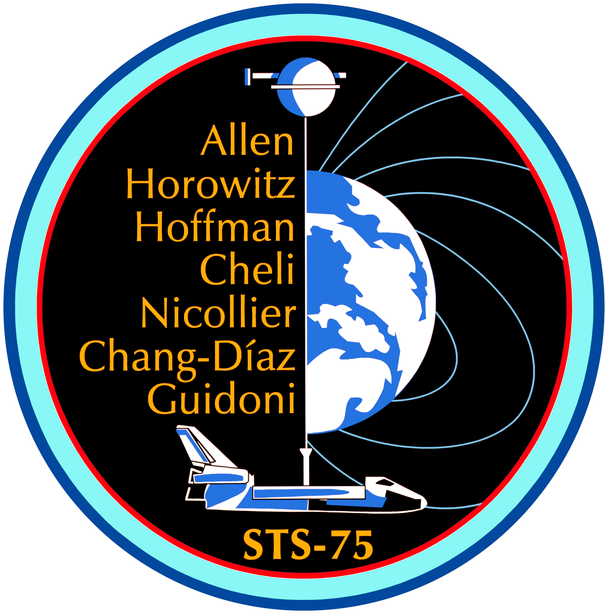 STS-75 Mission Insignia The STS-75 crew patch depicts the Space Shuttle Columbia and the Tethered Satellite connected by a 21 km electrically conduction tether. The Orbiter/satellite system is passing through the Earth's magnetic field which, like an electric generator, will produce thousands of volts of electricity. Columbia is carrying the United States Microgravity Pallet to conduct microgravity research in material science and thermodynamics. The tether is crossing the Earth's terminator signifying the dawn of a new era for space tether applications and in mankind's knowledge of the Earth's ionosphere, material science, and thermodynamics. The patch was designed for the STS-75 crew by Space Artist Mike Sanni.